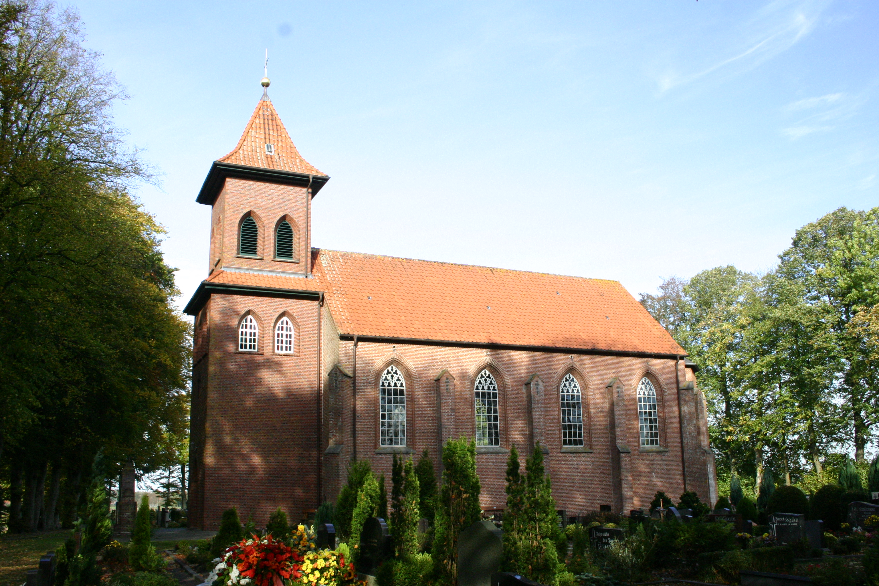 Church in Blomberg (district of Wittmund, East Frisia, Germany)